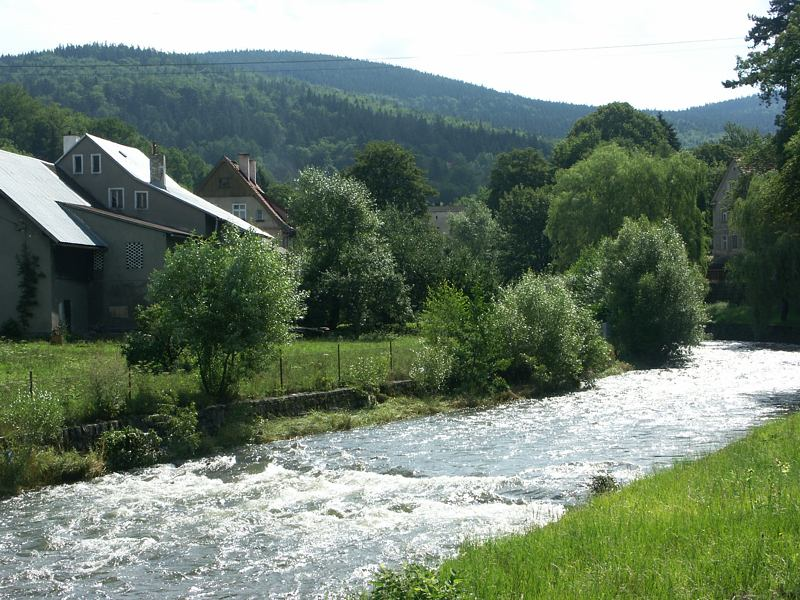 Biała Lądecka in Lądek-Zdrój – a river in Lower Silesia, a right tributary of Nysa Kłodzka (Poland).